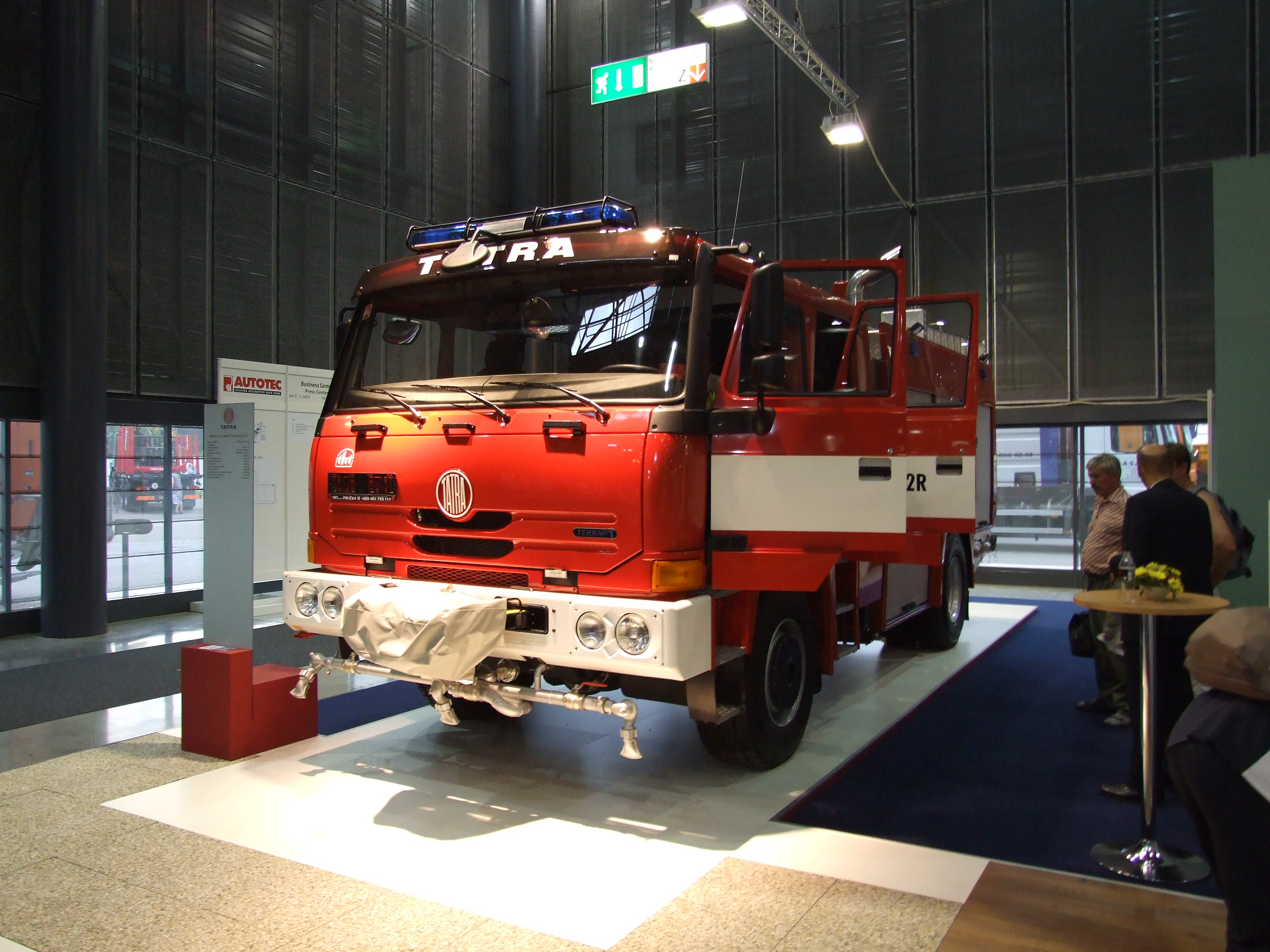 Fire Tatra truck in Brno Autotec fair